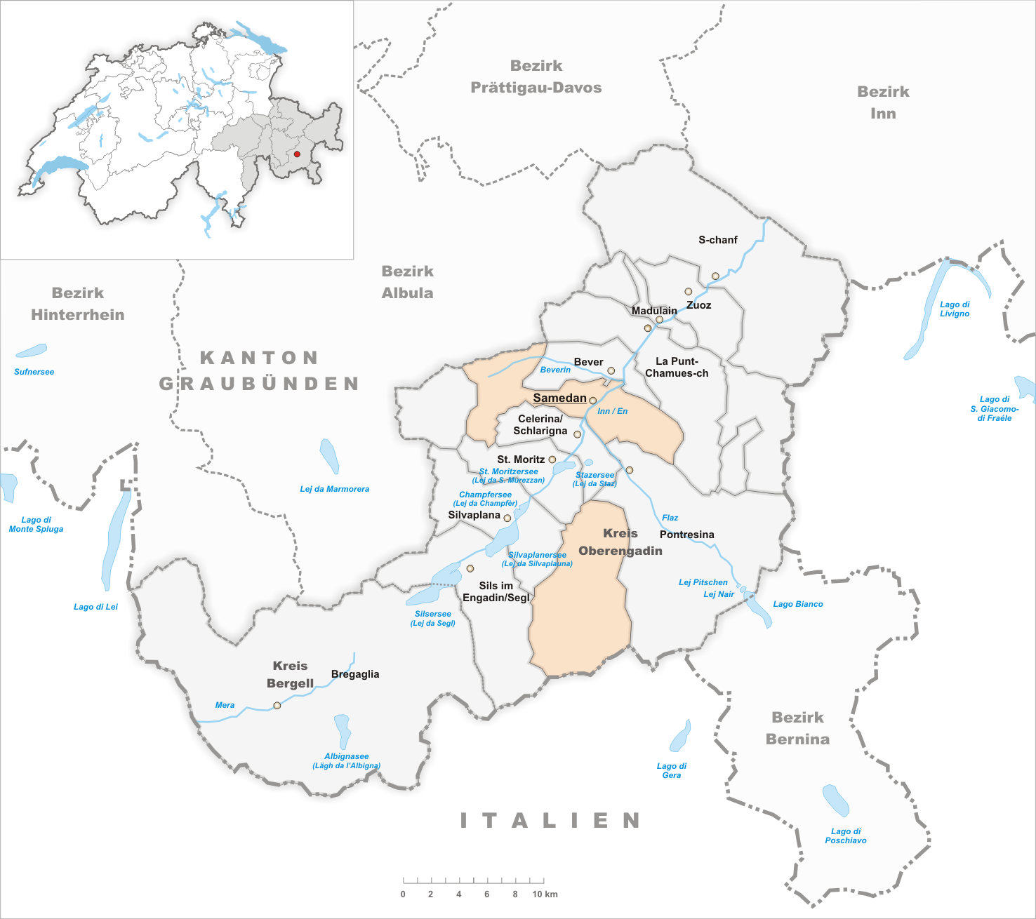 Municipality Samedan